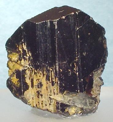 Cassiterite Locality: Busoro, Western Province, Rwanda (Locality at ) Size: 2.5 x 2.5 x 1.3 cm. A VERY RARE and EXCELLENT thumbnail of a splendent, twinned, black cassiterite crystal from a MOST UNCOMMON worldwide locality - Busoro, Rwanda. The crystals, terminations and twinning plane are extremely sharp and the trivial bruising on the terminations is certainly not a detraction on this very showy piece from a RARE locality. Very seldom available. Ex. Carl Davis Collection.